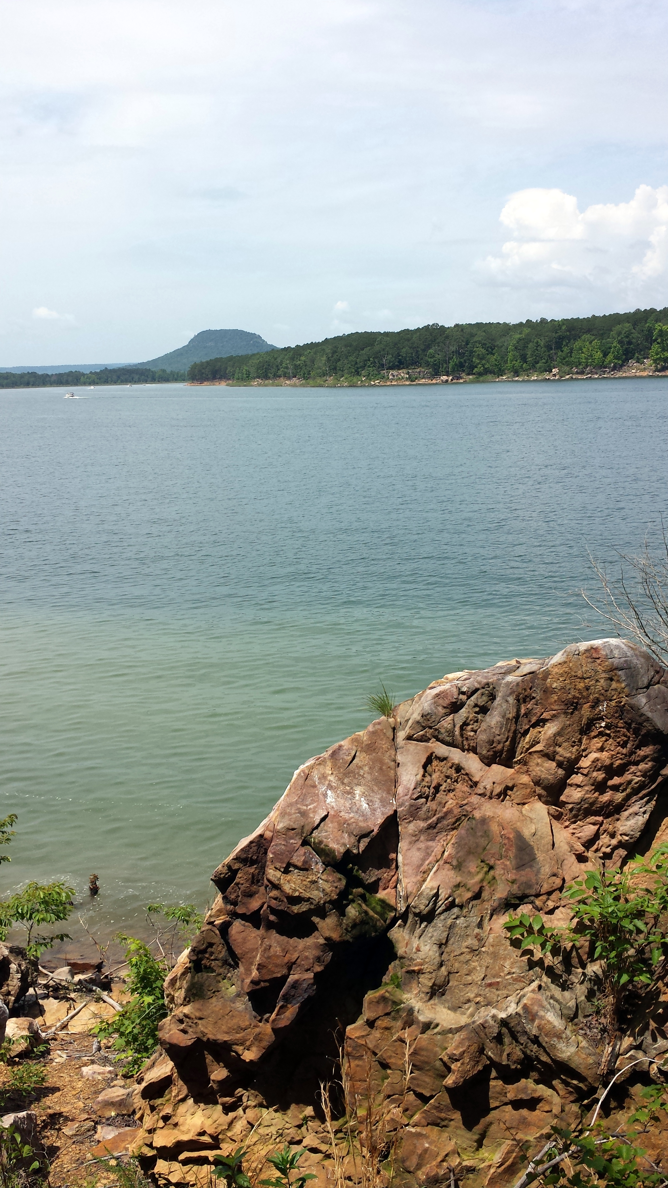 Sugarloaf Mtn in background